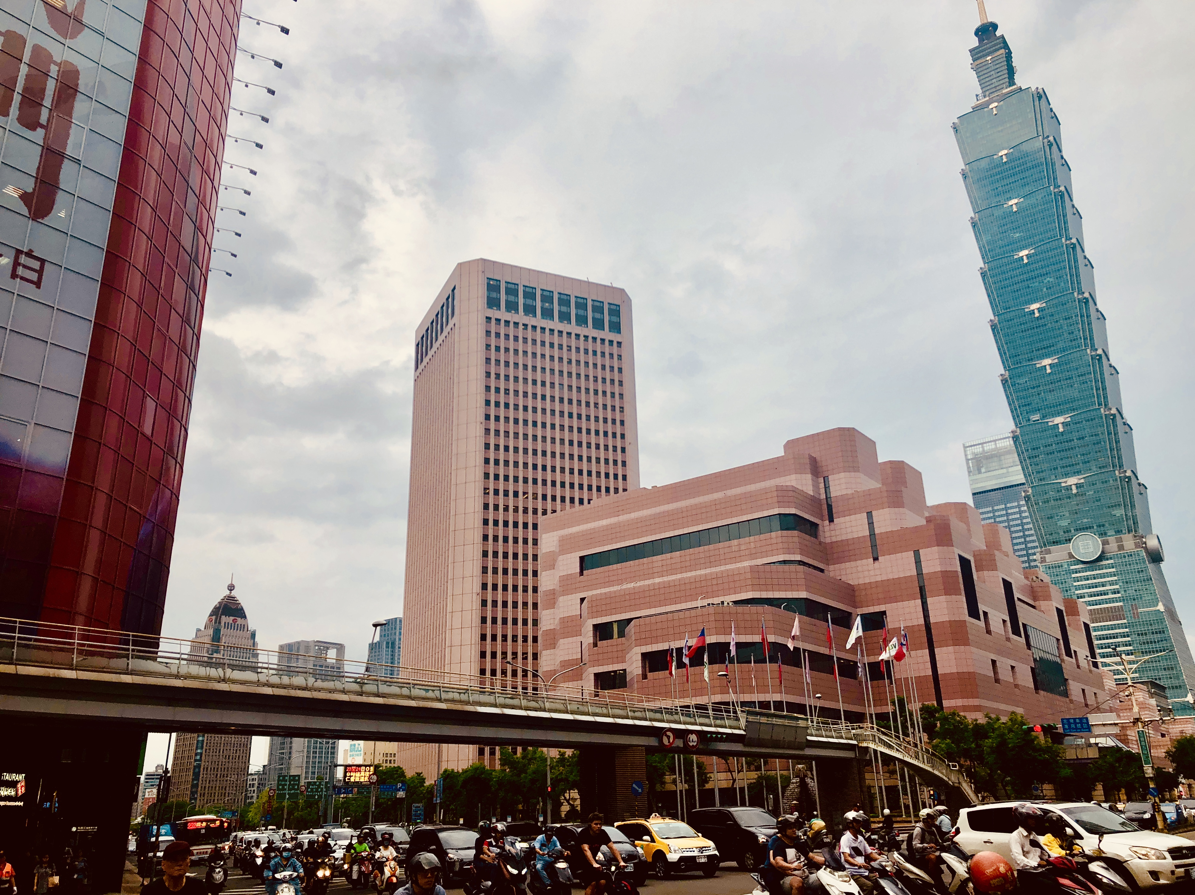 Taipei World Trade Center International Trade Building (TWTC ITB), Taipei International Convention Center (TICC) and Taipei 101.